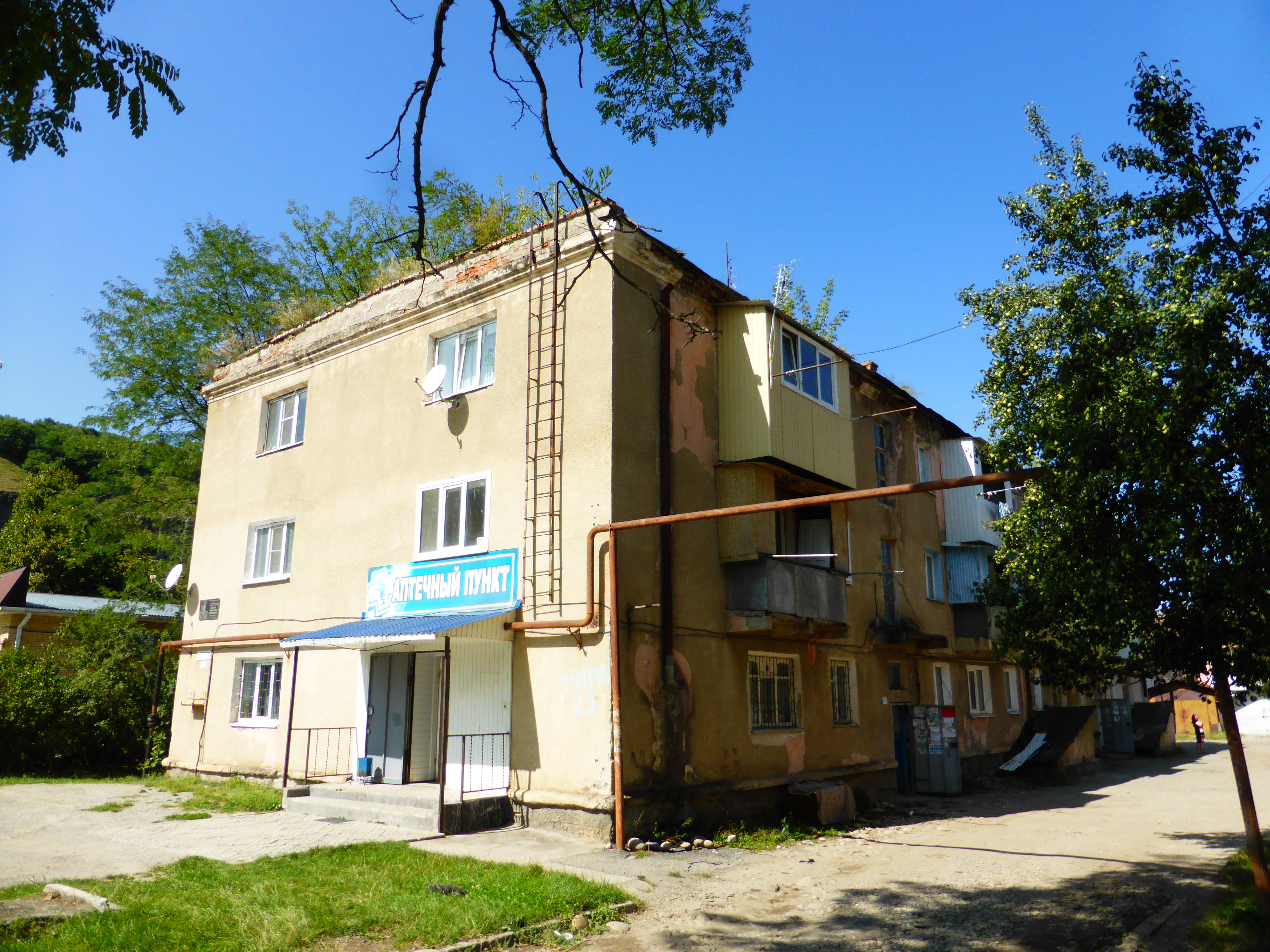 The house in which lived the hero of Soviet Union Bogatyrev